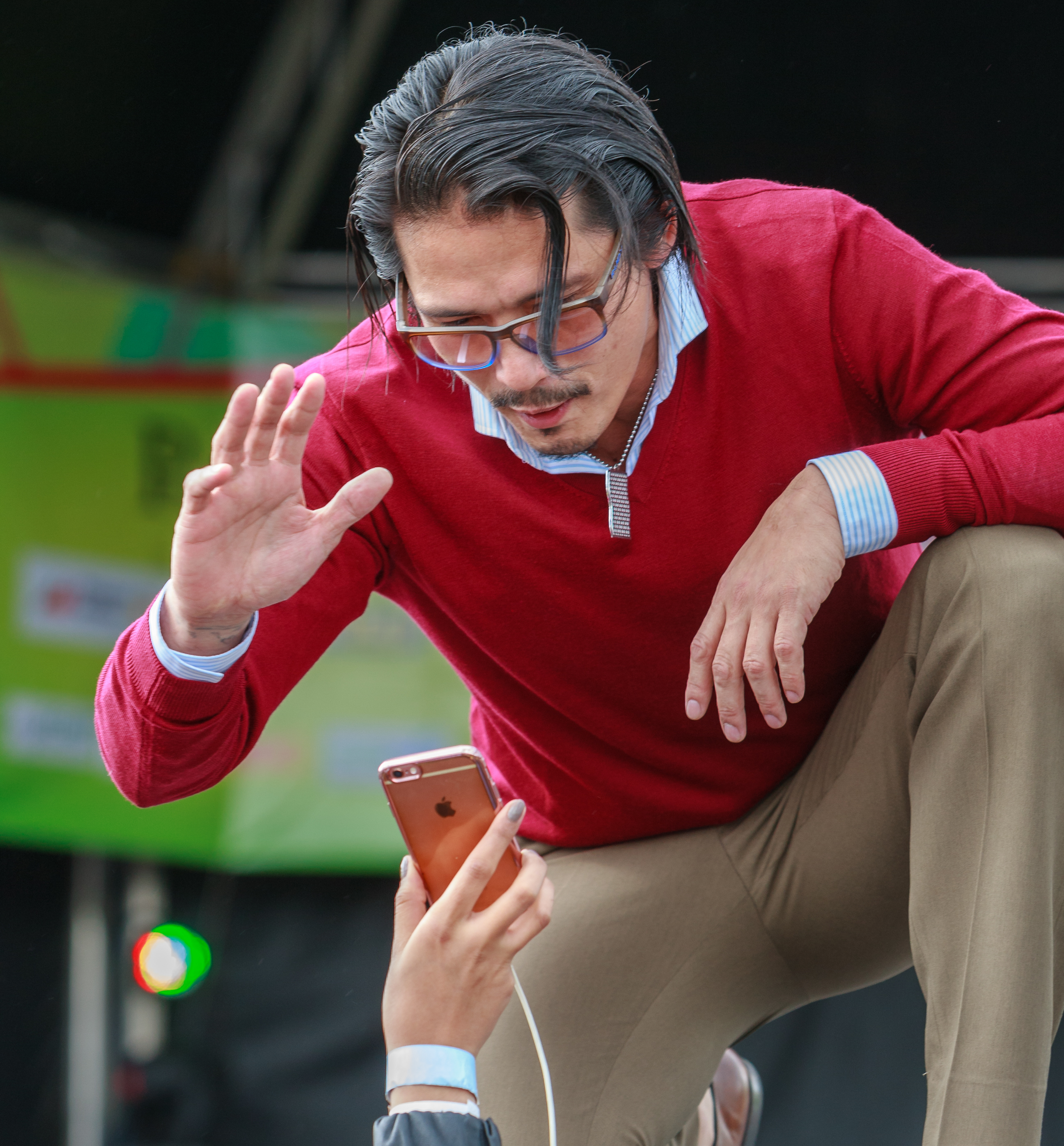 Barrio Fiesta sa London 2016 - Saturday